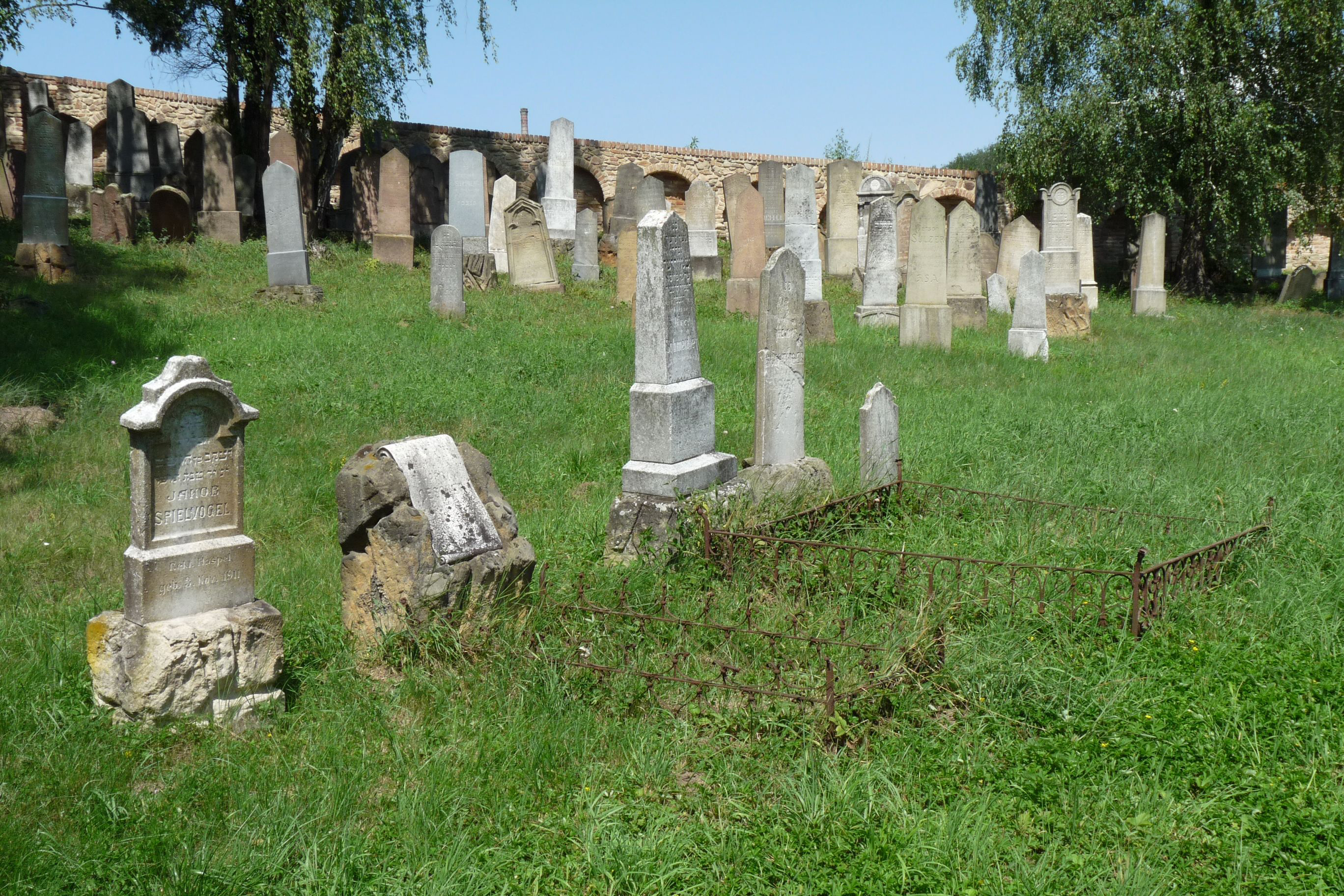 Jewish cemetery in the town of Ivančice, Brno-Country District, Czech Republic.